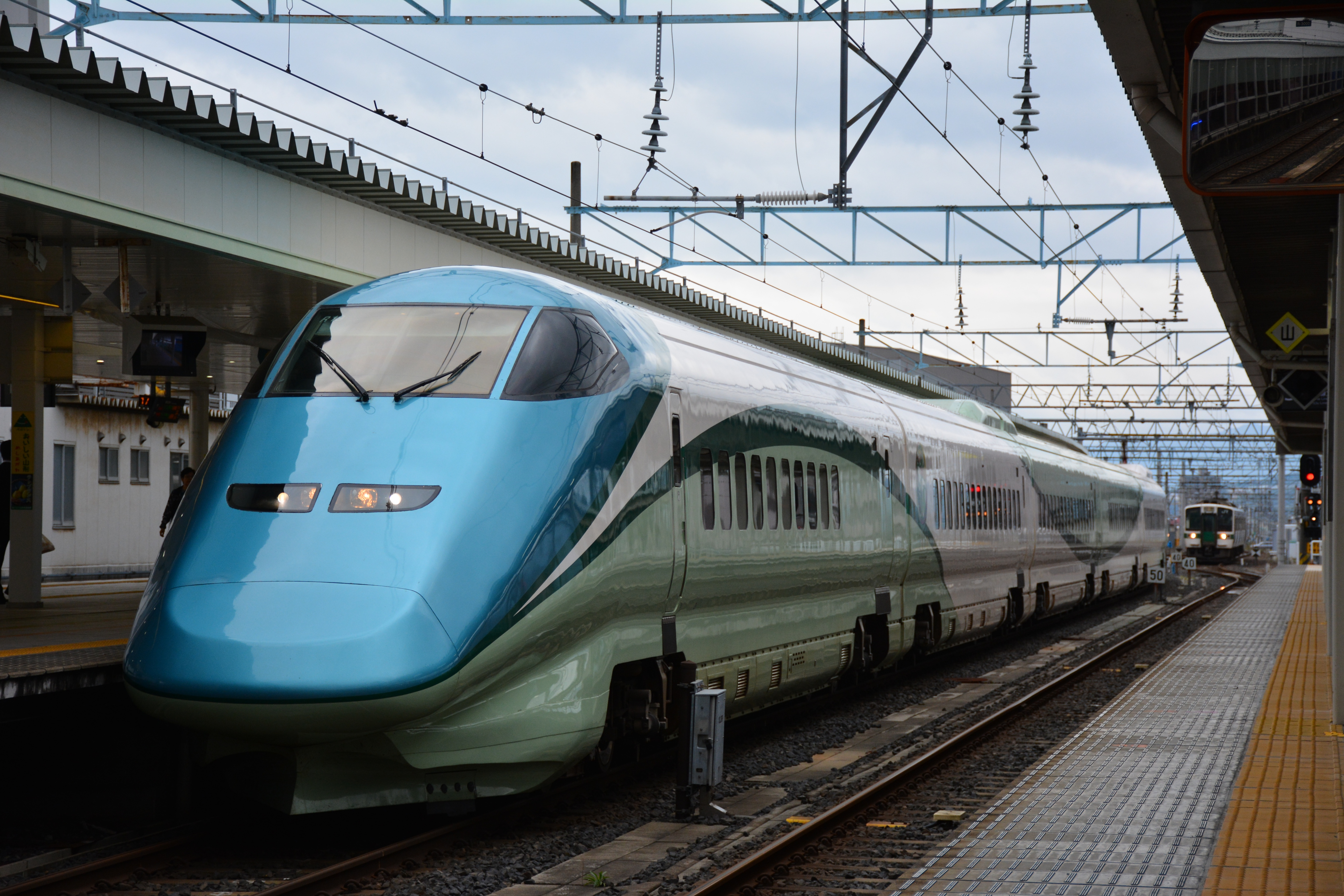 JR East E3-700 series Toreiyu shinkansen set R18 at Yamagata Station